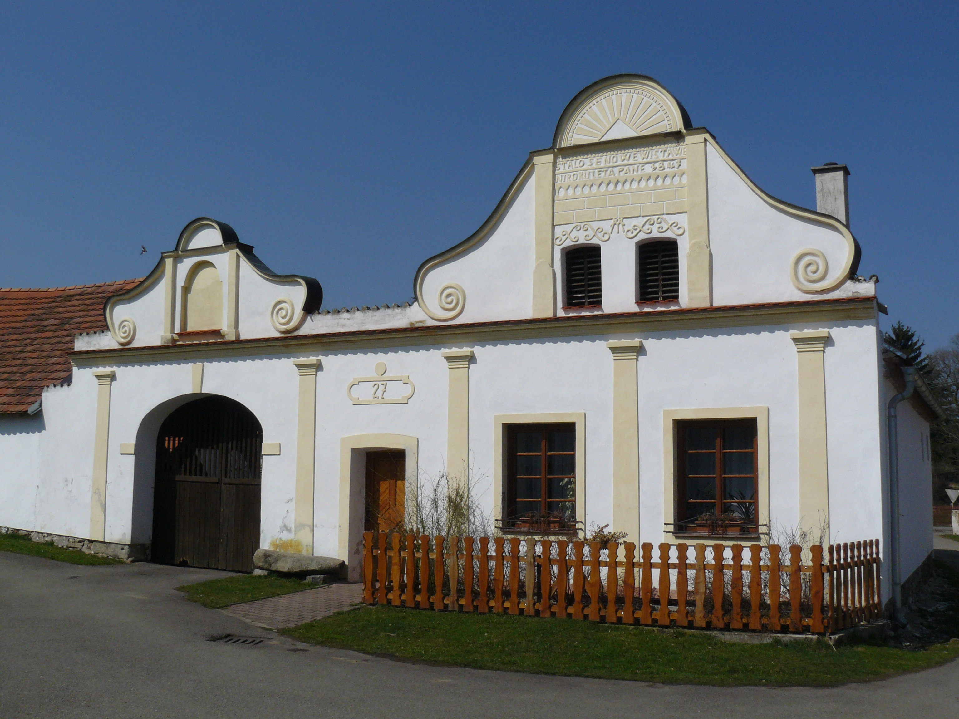 House No 27 in Bušanovice, Prachatice District, South Bohemian Region, Czech Republic.